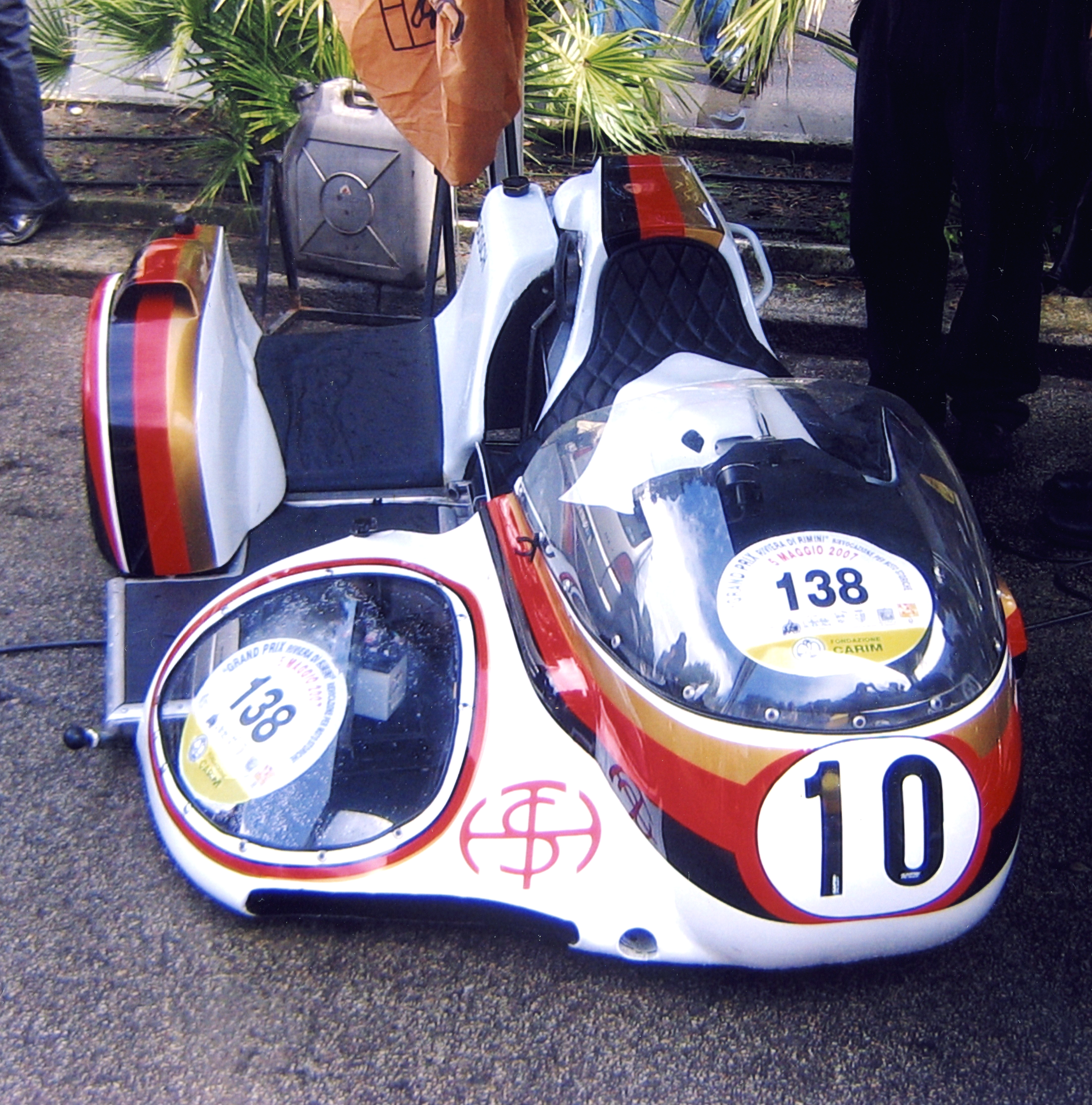 König sidecar 500 rided by Werner Schwärzel and later by Giuseppe Dal Toè. Rimini, 2007